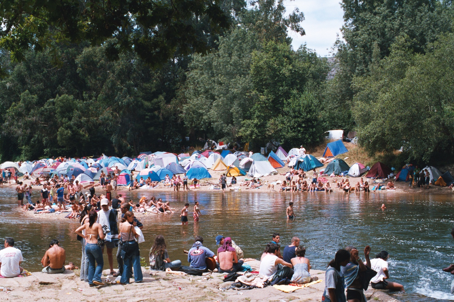 Author: Orium Photo date: July 18-20, 2003